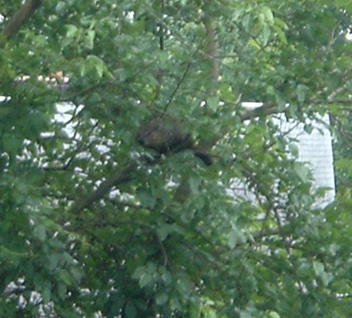 A groundhog sitting on a branch after climbing up a tree in Virgnina, USA.